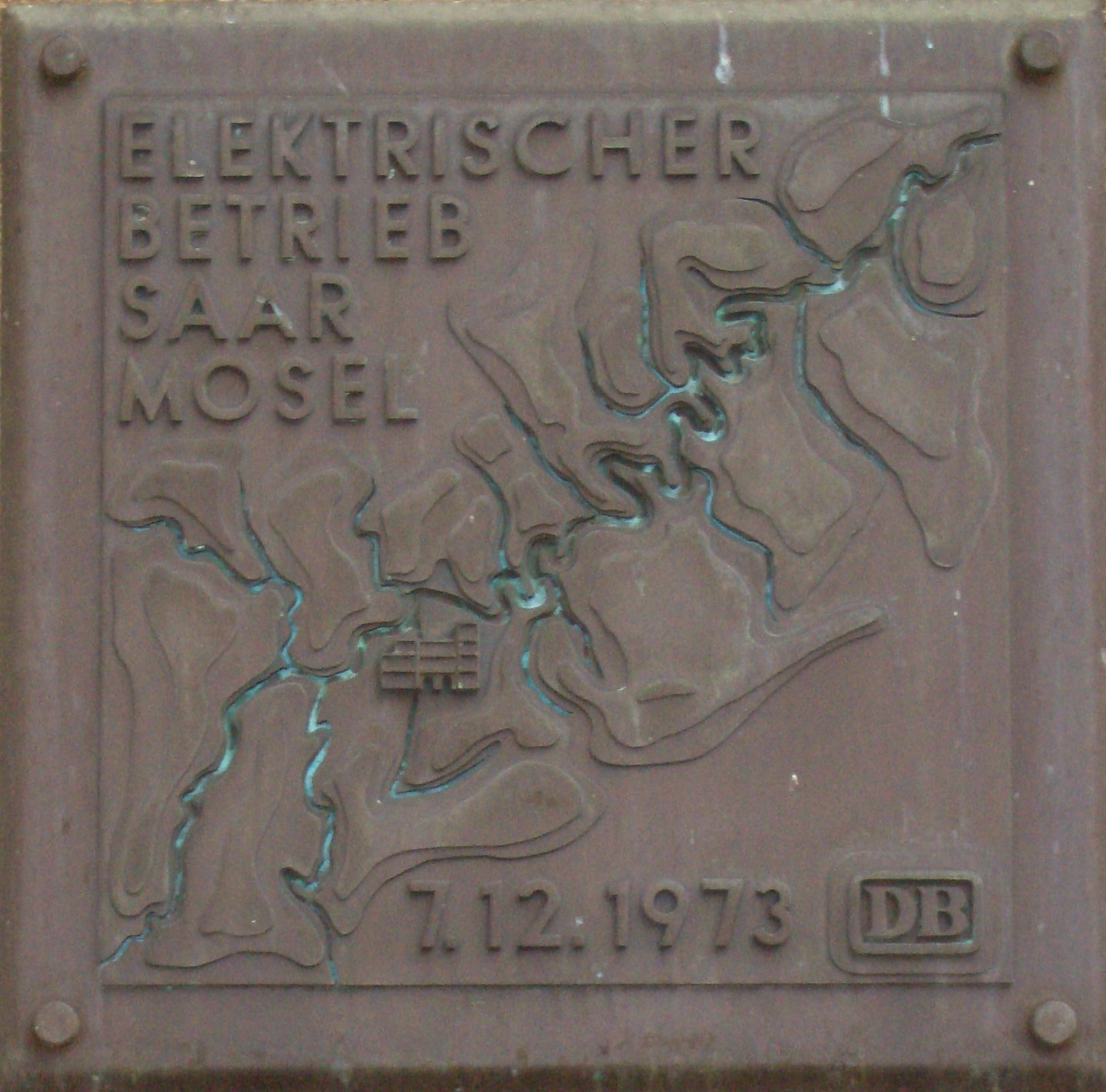 Plaque reminding of the electrification of the Mosel and Saar railway lines, Trier, Germany